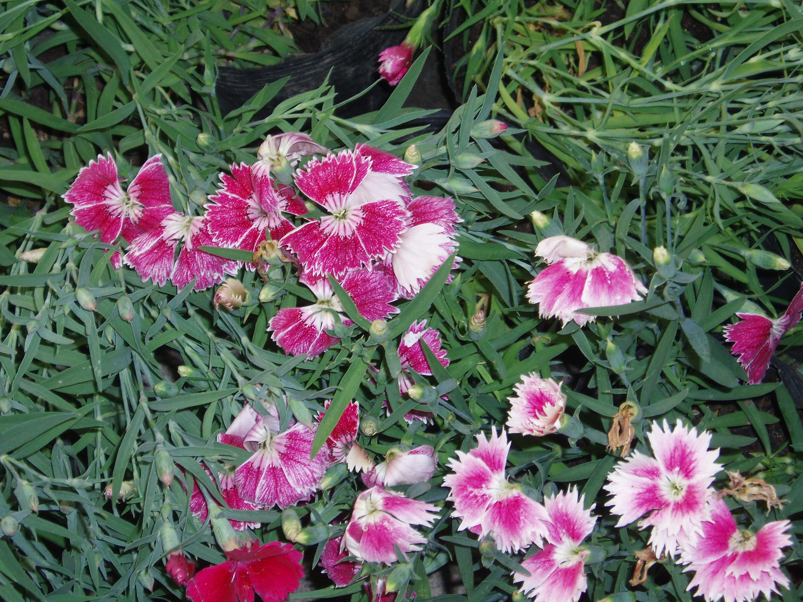 Chinese Pink flowers